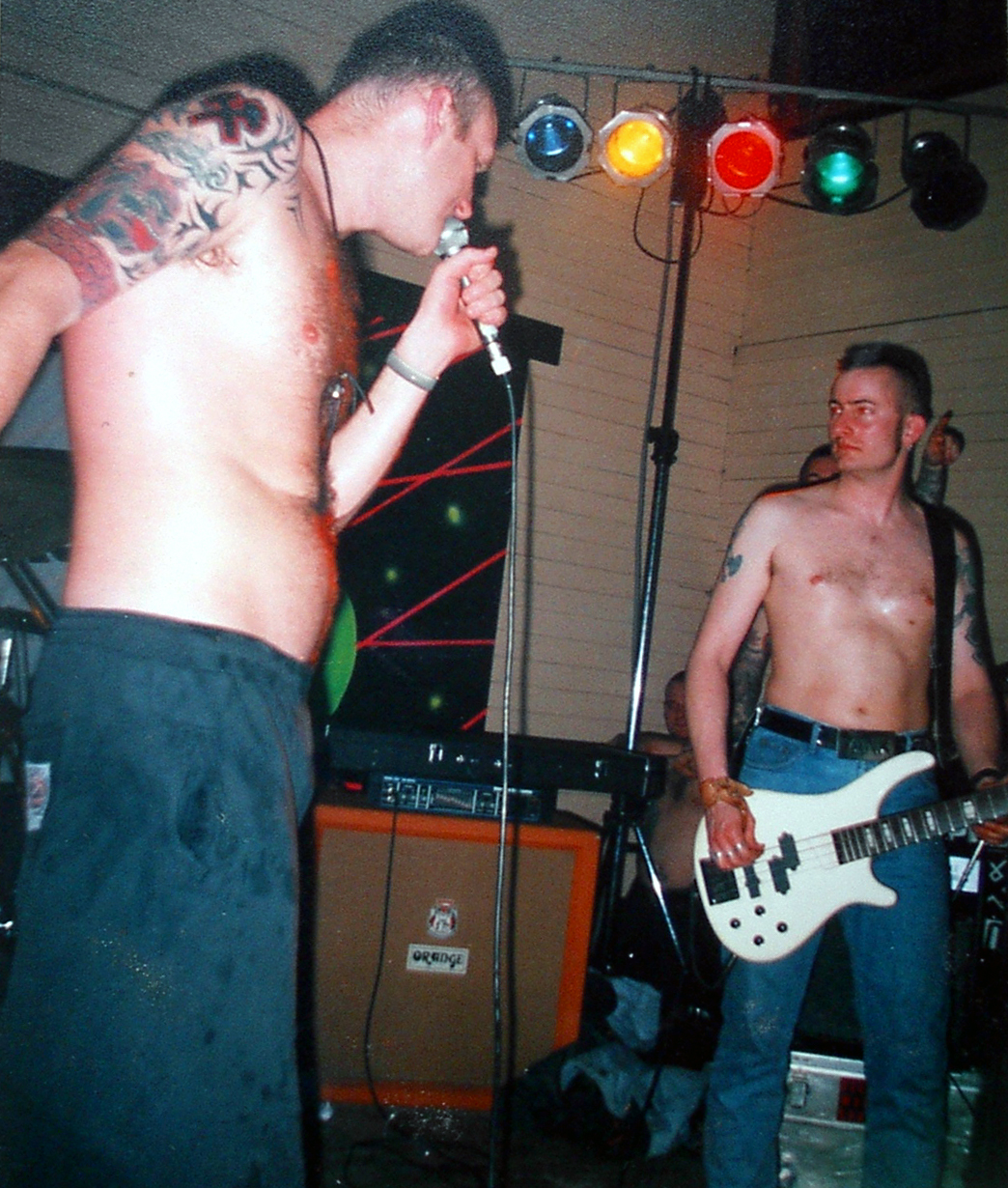 German Oi Punk Band "Pöbel & Gesocks", 1999, private Archive (own photograph)